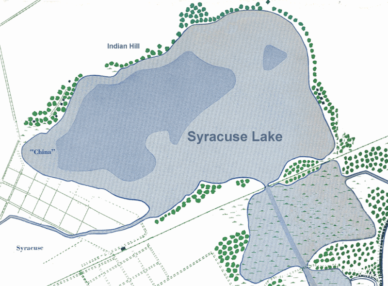 Created by user from an old map (1950).